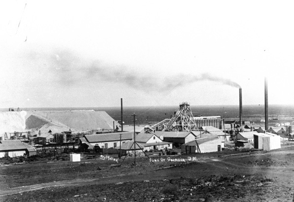 Views of operations at Gwalia Gold Mine